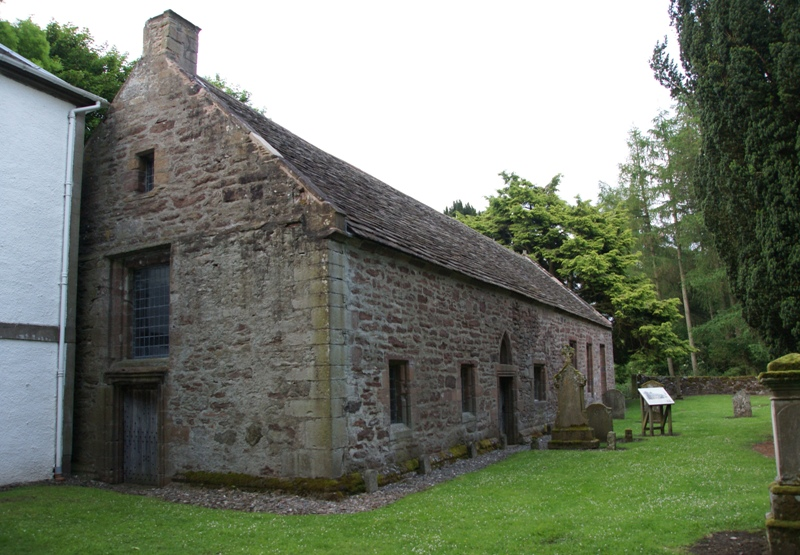 Innerpeffray Chapel, Perth and Kinross, Scotland. From the south west.